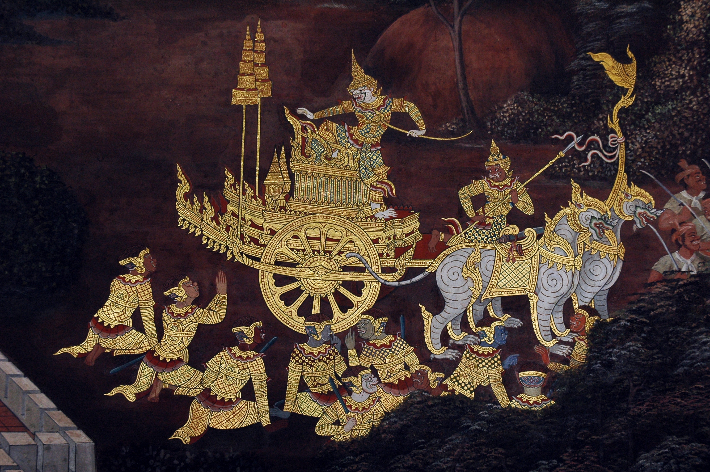 Scene from the Ramakien (Thai Ramayana) depicted on a mural at Wat Phra Kaew (Temple of the Emerald Buddha), Bangkok, Thailand. Original work dates from c. 1800 and is long out of copyright.